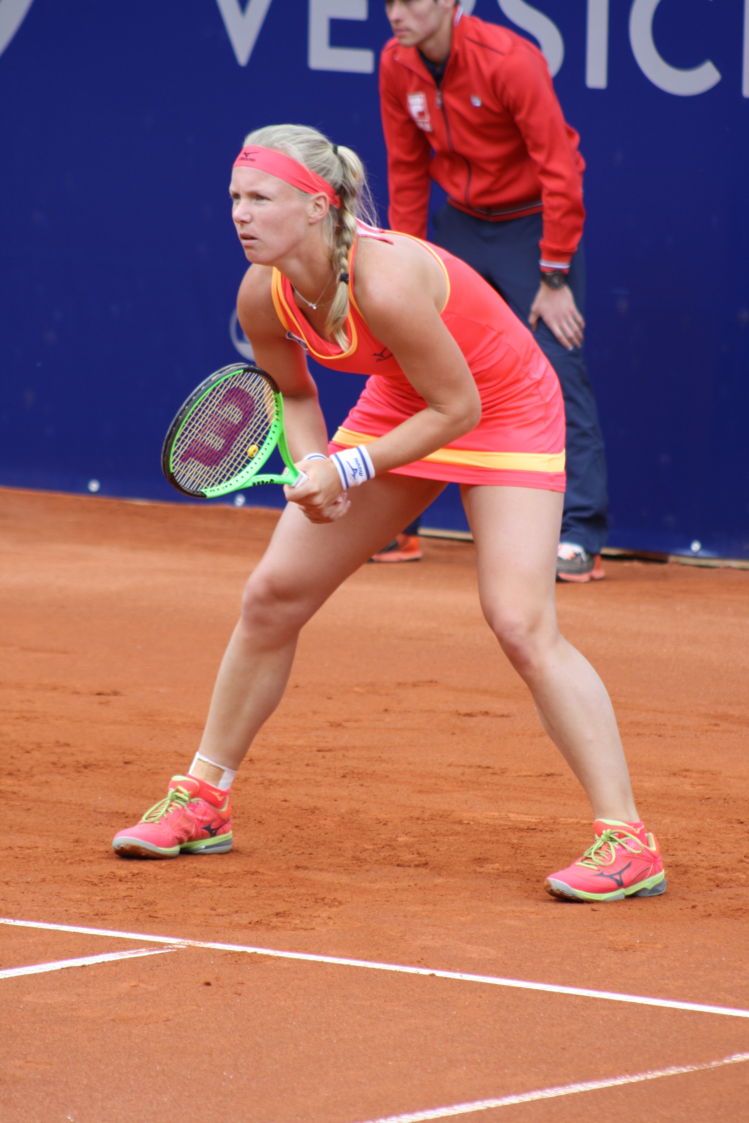 Kiki Bertens, May 2017